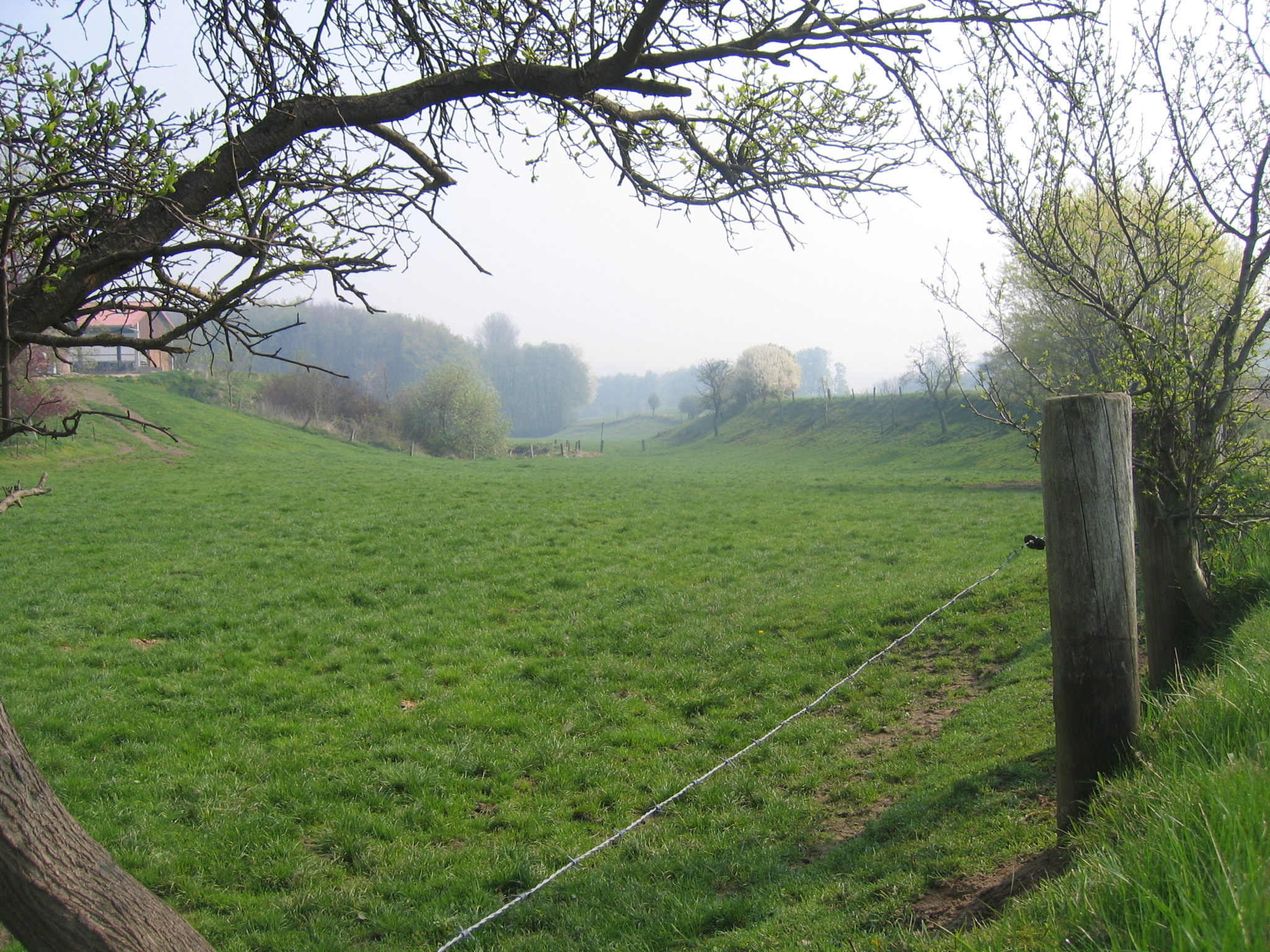 Siek in Rödinghausen, District of Herford, North Rhine-Westphalia, Germany.